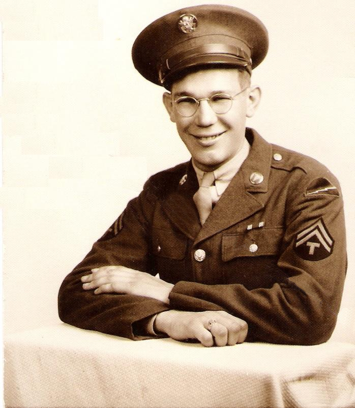 Boven's grandfather, Evert VanderRoest, before being sent to Europe as a part of the United States Army's 78th Infantry Division during World War II. The shoulder insignia of the 78th is clearly visible as are the rank insignia of a Technician Fifth Grade.